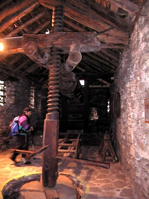 Torchio